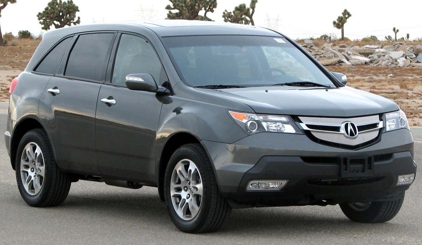 2007 Acura MDX photographed in USA.